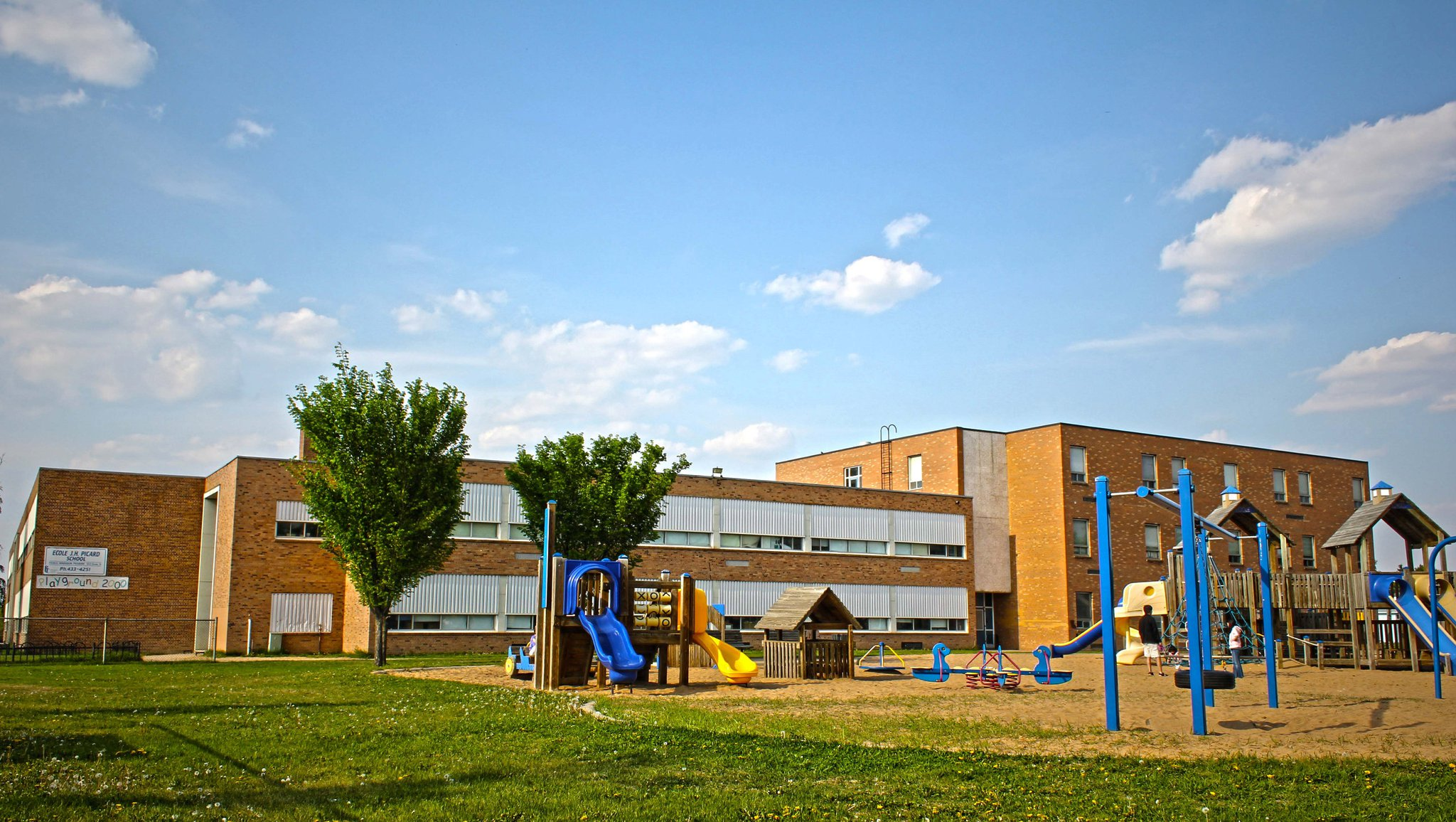 southwest view of JH Picard